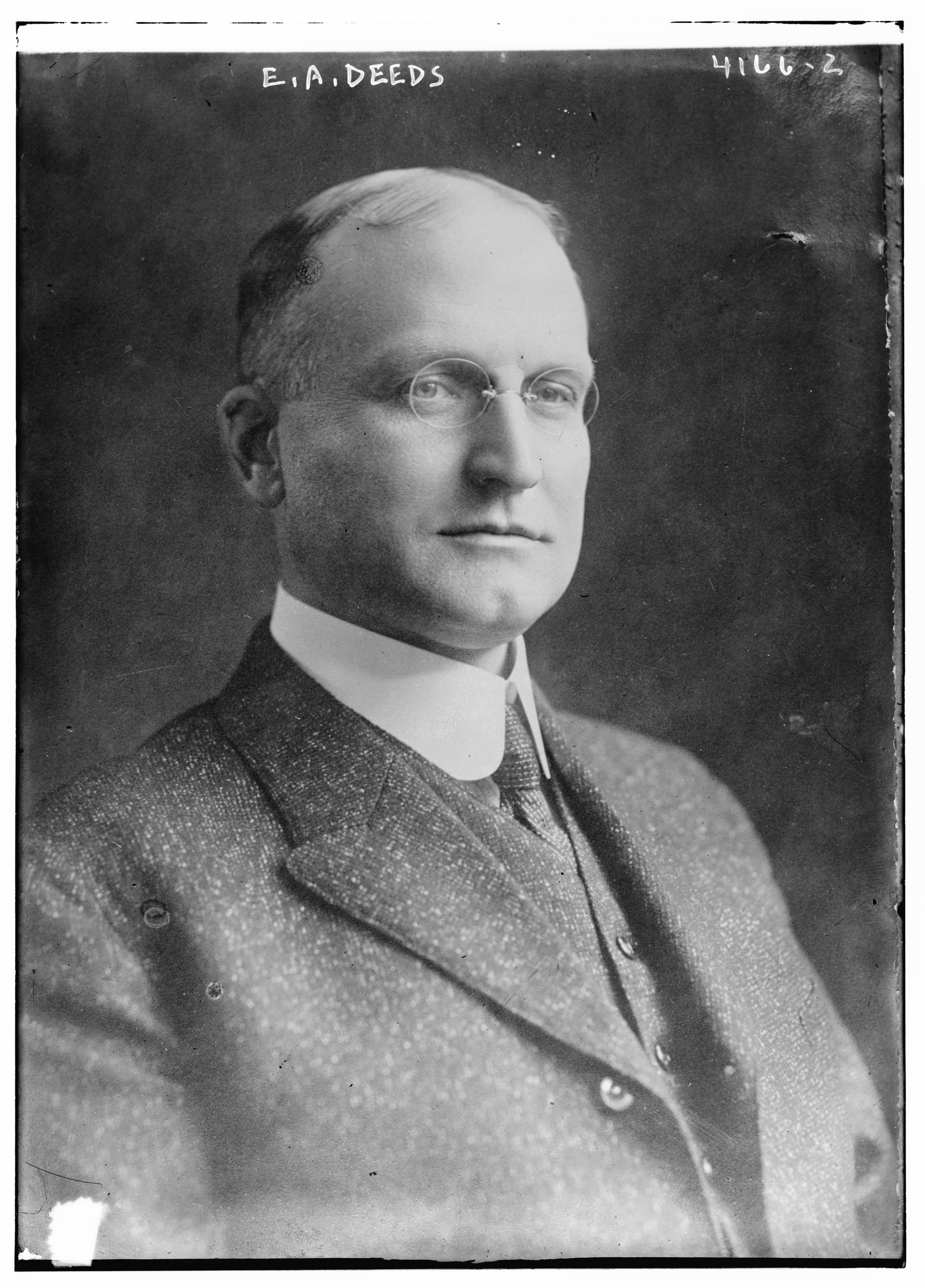 Edward Andrew Deeds in 1917